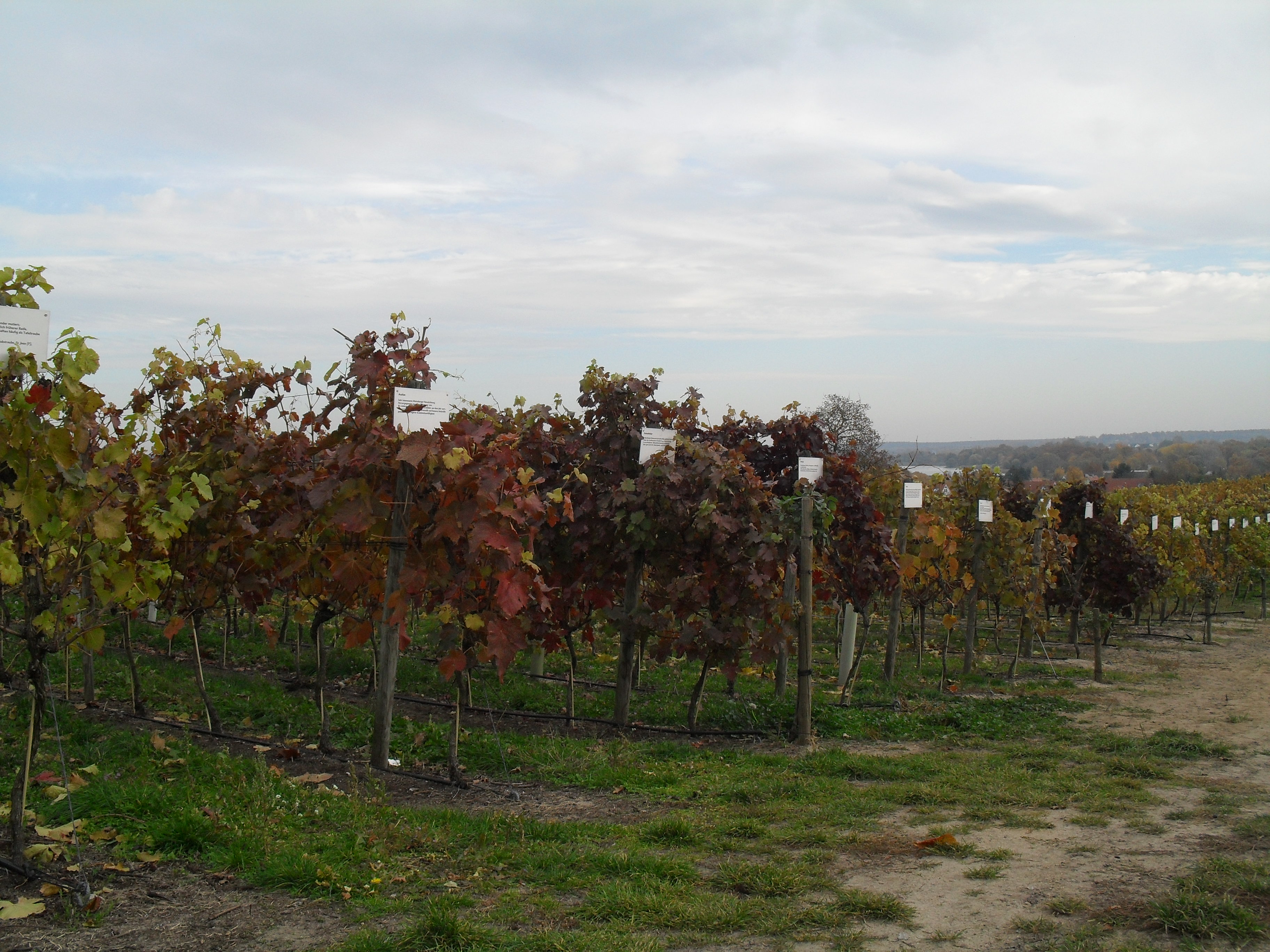 Path for instruction for red grape varieties on Werderaner Wachtelberg